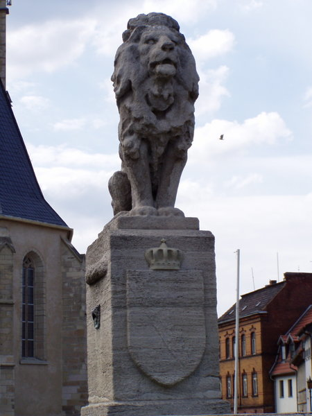 "Wettinerbrunnen" (fountain) in Lucka, Germany, erected in 1907 in remembrance of the Battle of Lucka in 1307.